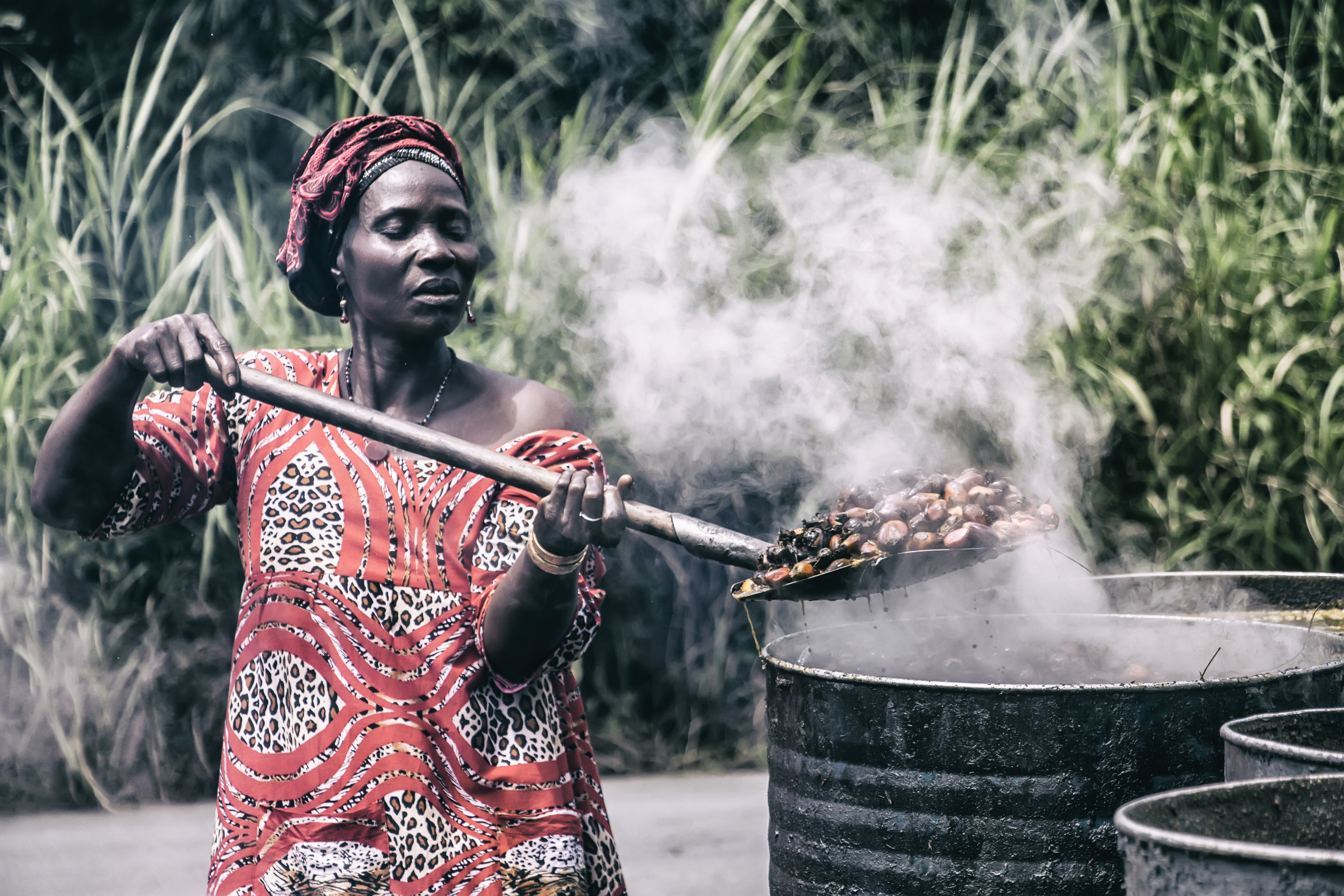 malgré la chaleur j'y arrive This is an image of "African people at work" from Guinea